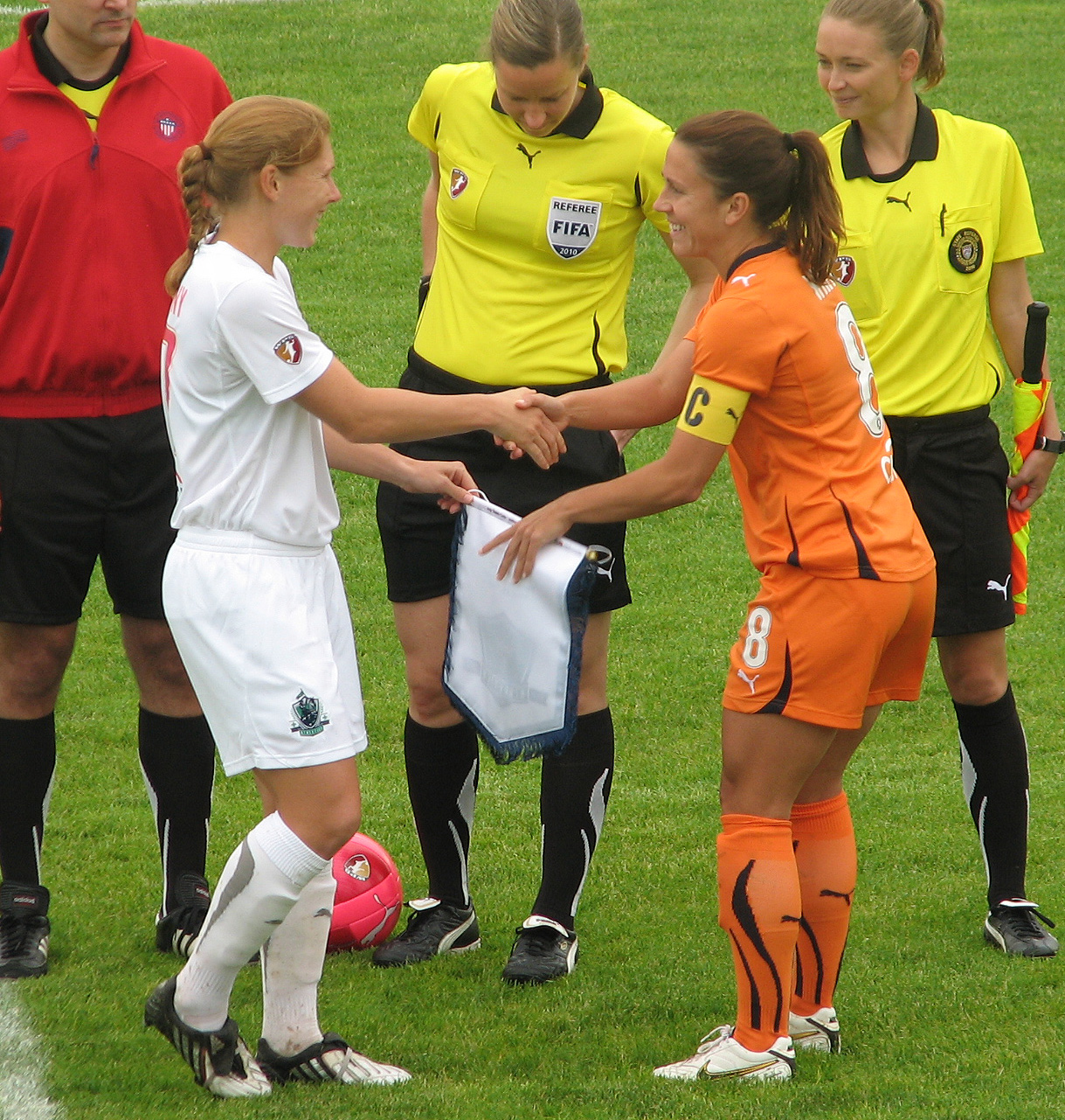 Kacey White of the NJ Sky Blue FC and Lori Chalupny of the St.Louis Athletica.